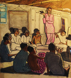 Sketch showing delegates at peace conference held at Gandhi's ashram in India on the first anniversary of his assassination in 1949, artwork by Anita Parkhurst Willcox